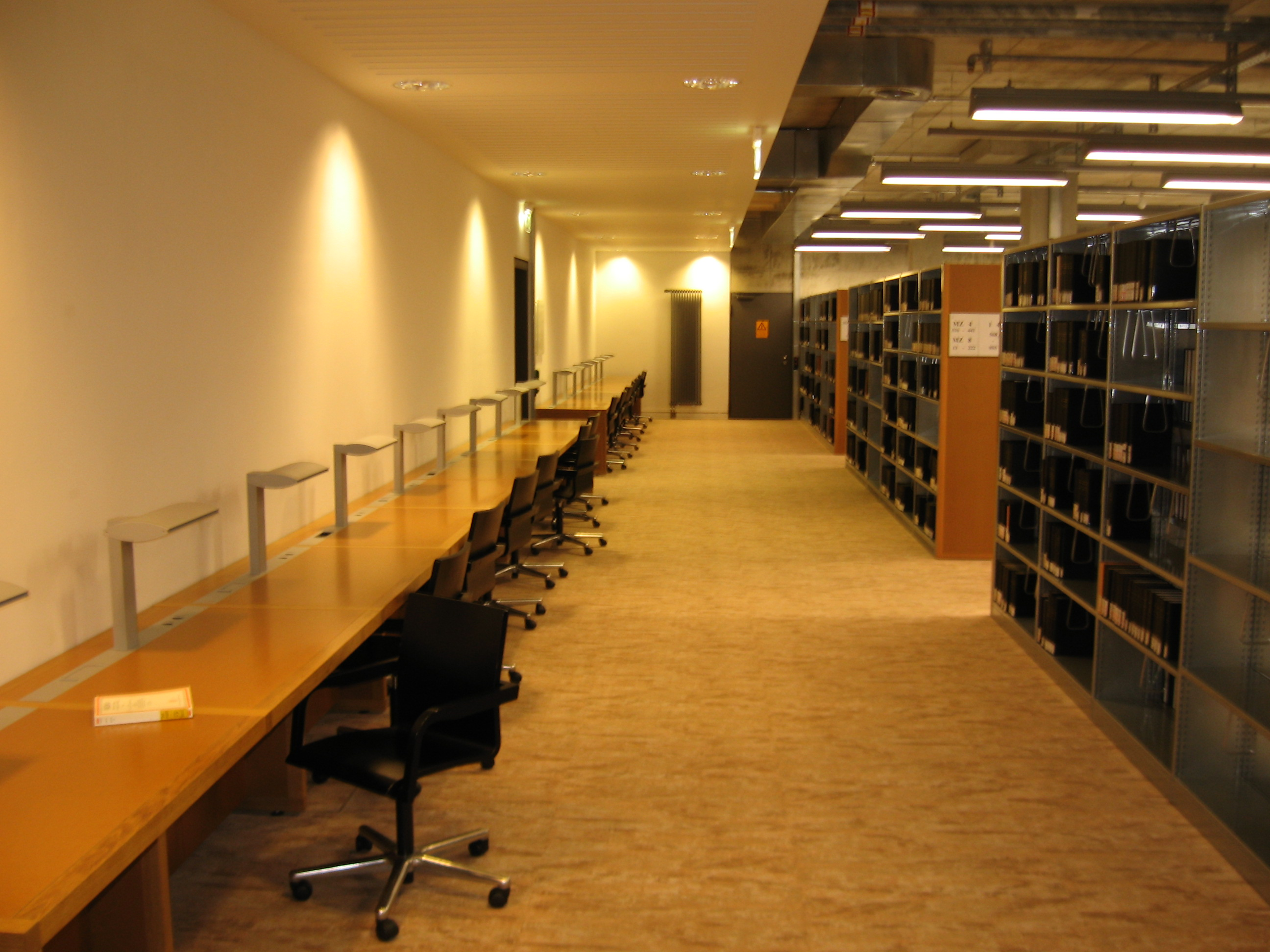 Interior of the SLUB